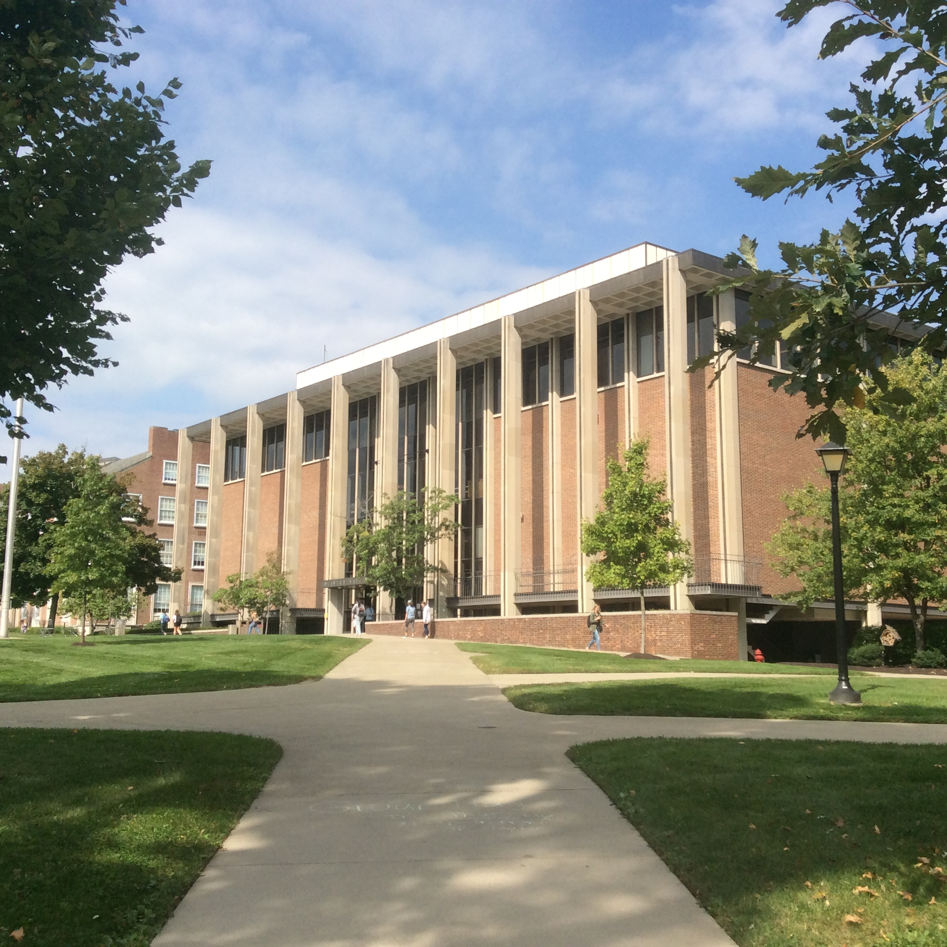 Slayter Hall student Union (1962), funds donated by Dr. Games Slayter